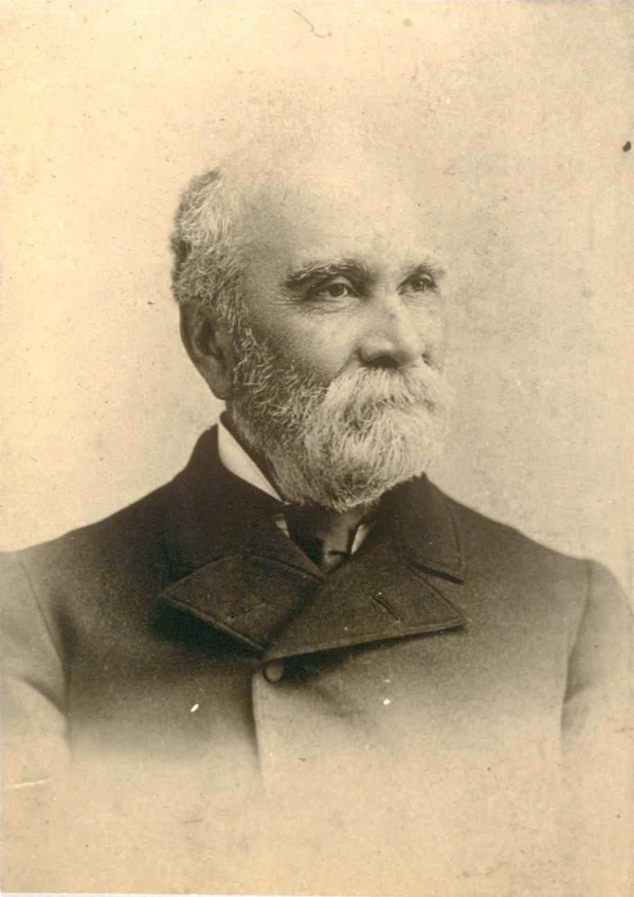 William Heath Davis (1822-1909), early settler of San Diego California. Noted author, associated with Lieutenant Gray in abortive effort to found new town, frequently called Davis' Folly.